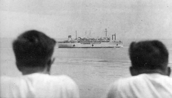 U.S. Navy sailors AOAN Gordon Groves on the left and AO1 Chet Adkins watch the hospital ship USS Repose (AH-16) on 29 July 1967 off Vietnam. The Repose received many wounded from the fire aboard the aircraft carrier USS Forrestal (CVA-59) on that day.